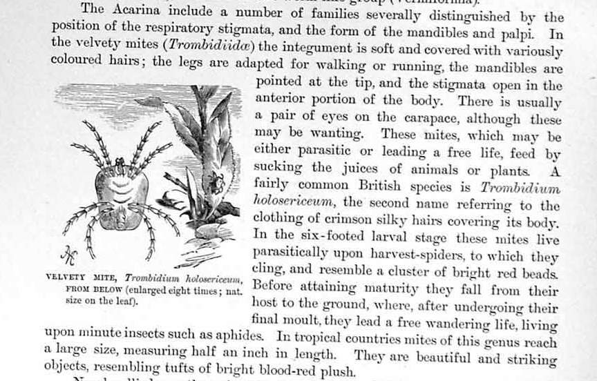 Text and small drawing of Trombidium holosericeum